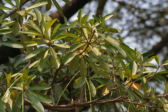 Saptaparni Alstonia scholaris in Kolkata, West Bengal, India.